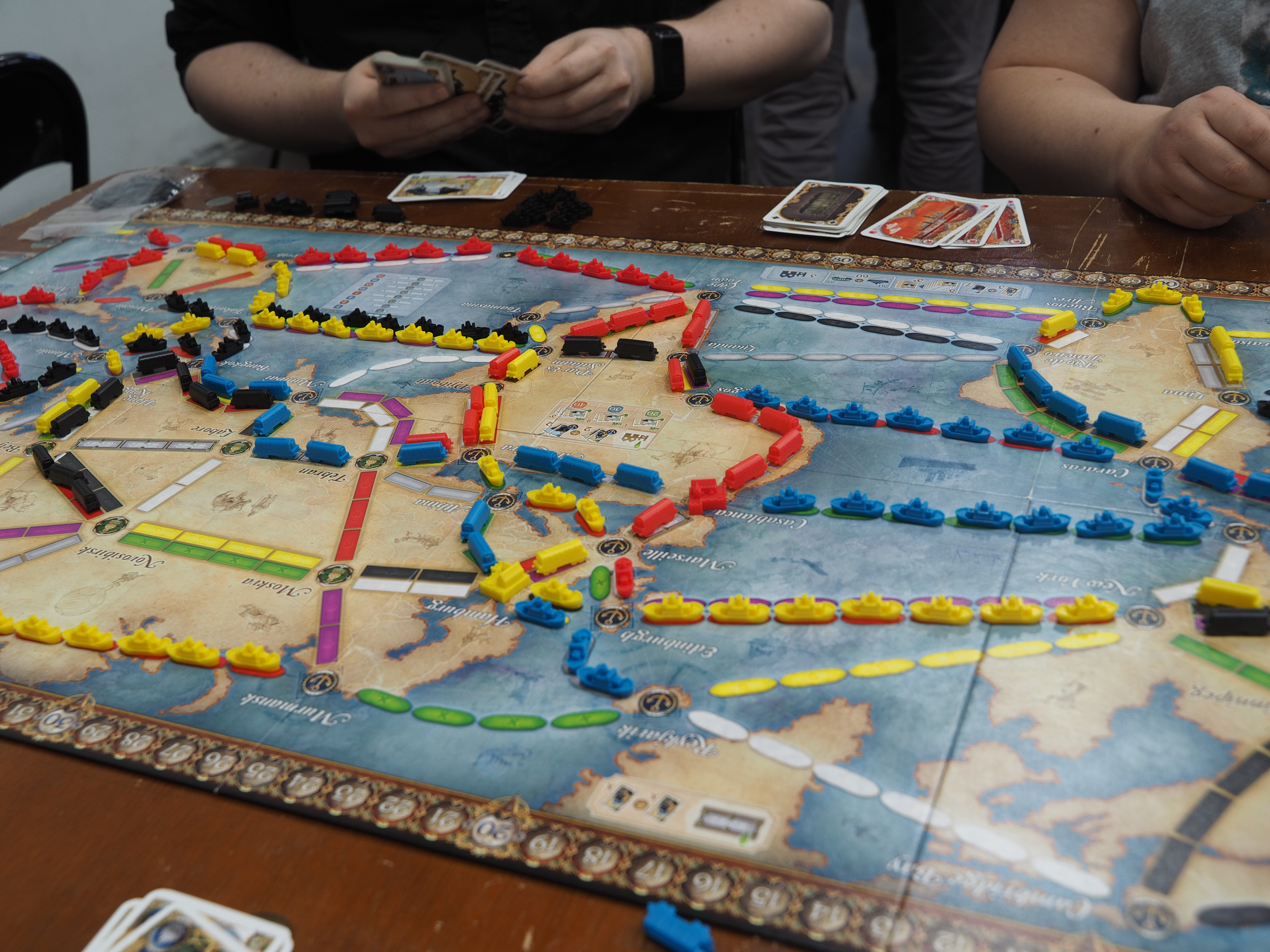 A four-player game of Ticket to Ride Rails & Sails near the end of the game, played at the annual board game festival in Kaapelitehdas, Helsinki, Finland in September 2017.